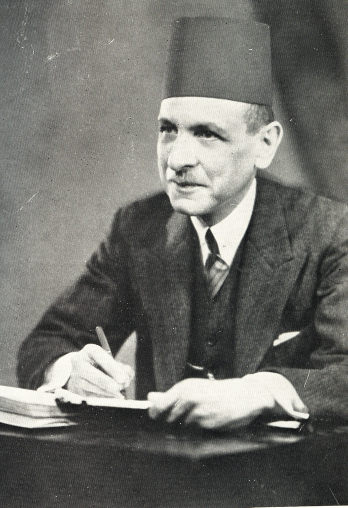 Prof. Naguib Pasha Mahfouz